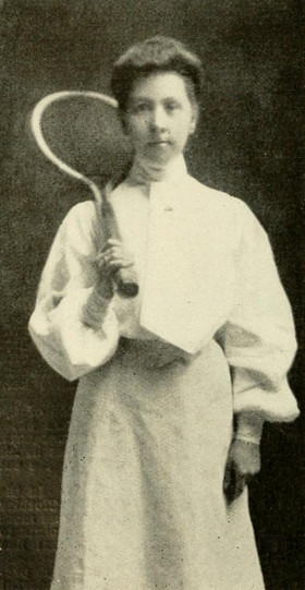 Violet Summerhayes, five times Canadian tennis champion in between 1899 and 1904.